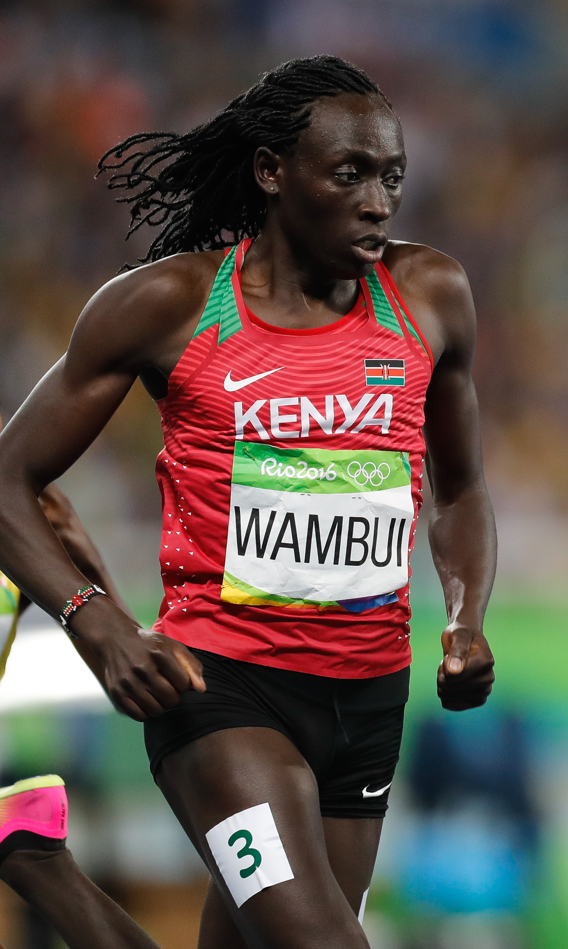 Rio de Janeiro - Semifinais dos 800m feminino nos Jogos Rio 2016, no Estádio Olímpico. (Fernando Frazão/Agência Brasil)